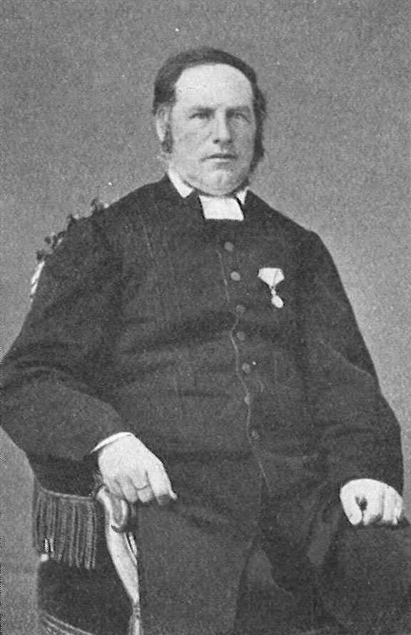 Lars Feuk (1813-1903), Swedish clergyman and author (under the pen name "Larifari")